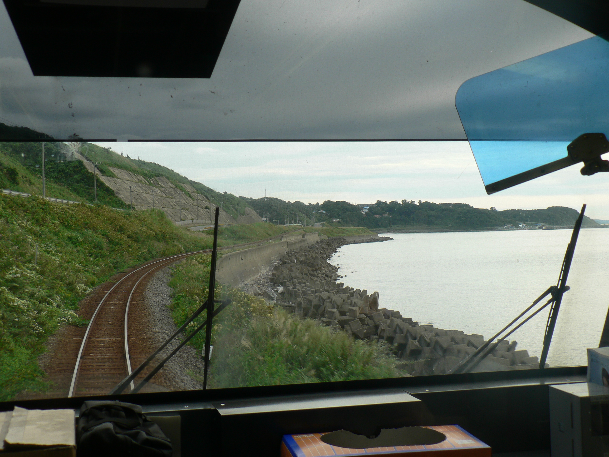 Sea of Japan from Gonou line